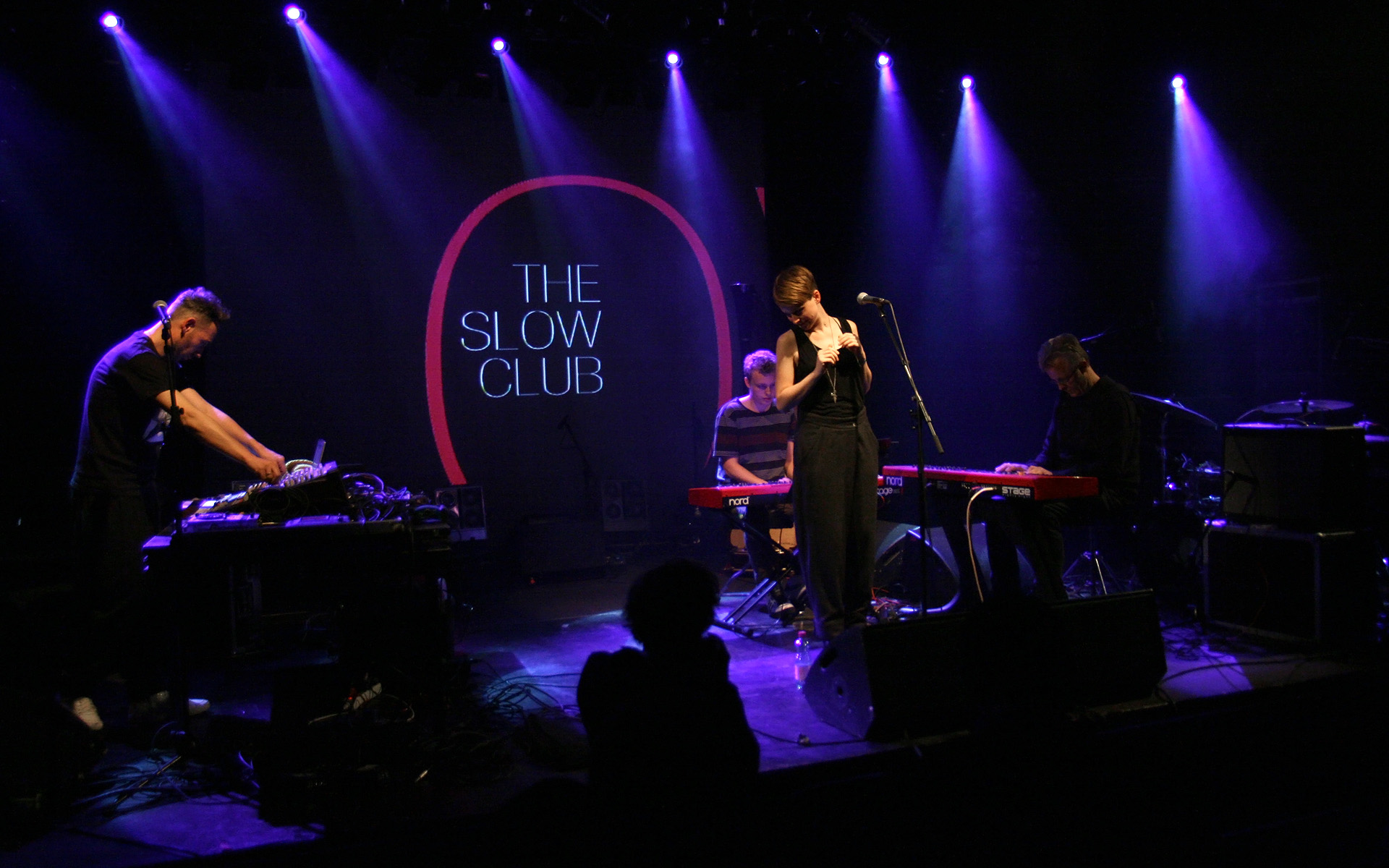 "The Twisted World of I-Wolf": Slow Club Revisited with Violetta Parisini, Wolfgang Schlögl, Thomas and Jakob Rabitsch (WUK, Vienna).